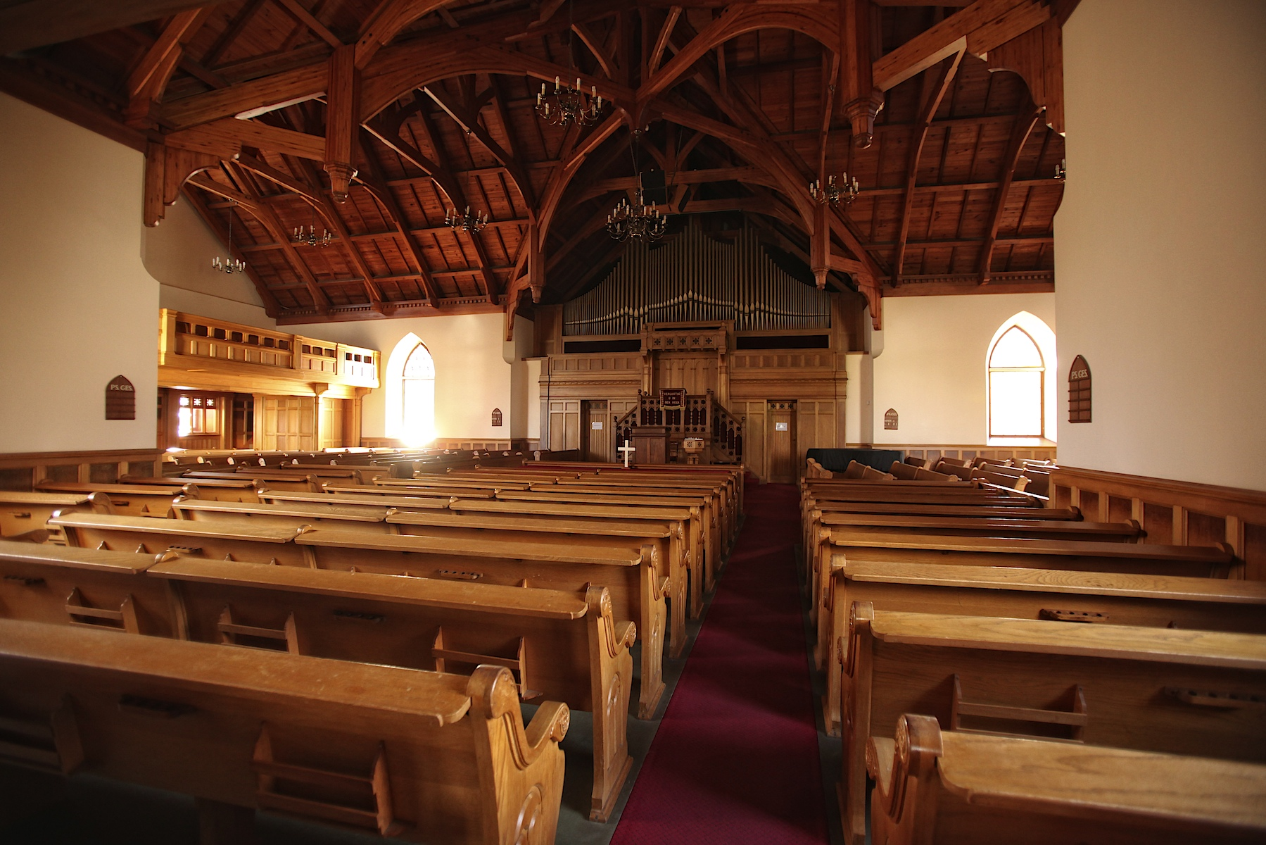 Dutch Reformed Church in Franschhoek This media shows a South African Protected Site with SAHRA file reference 9/2/069/0044.